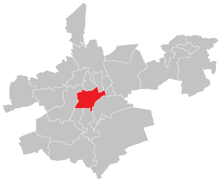 Location map of Olomouc district Olomouc-město